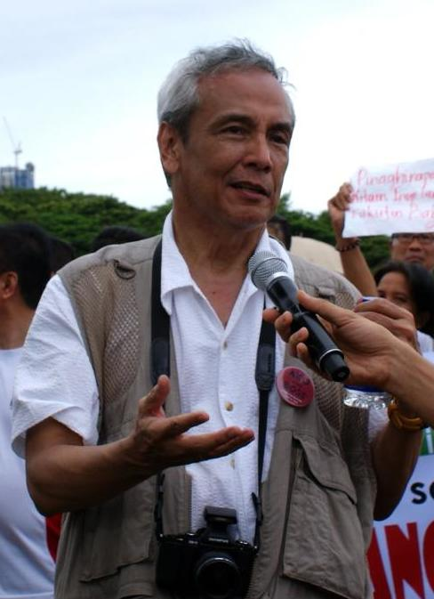 Jim Paredes at the Million People March